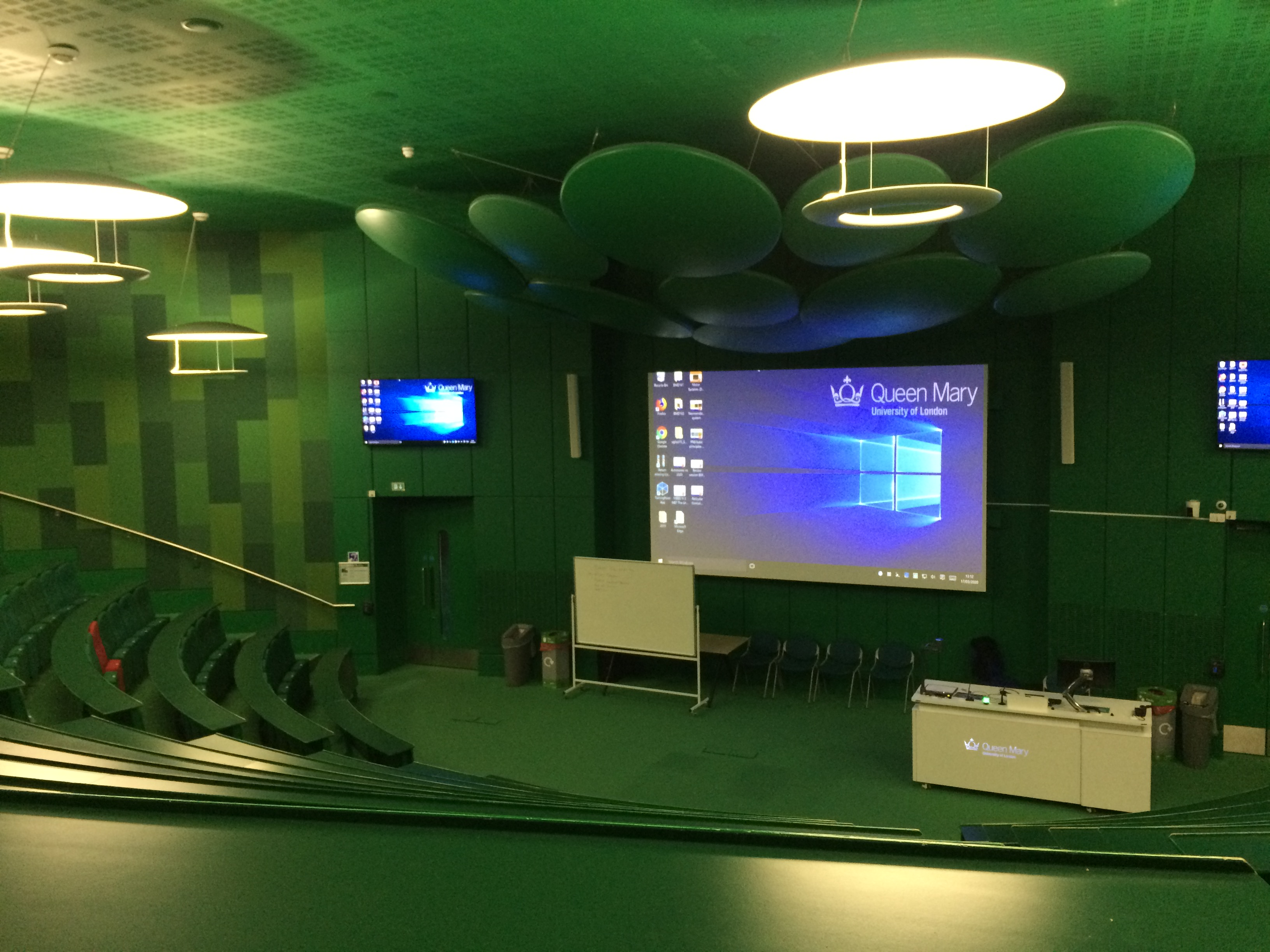 Perrin Lecture Theatre, 17 March 2020